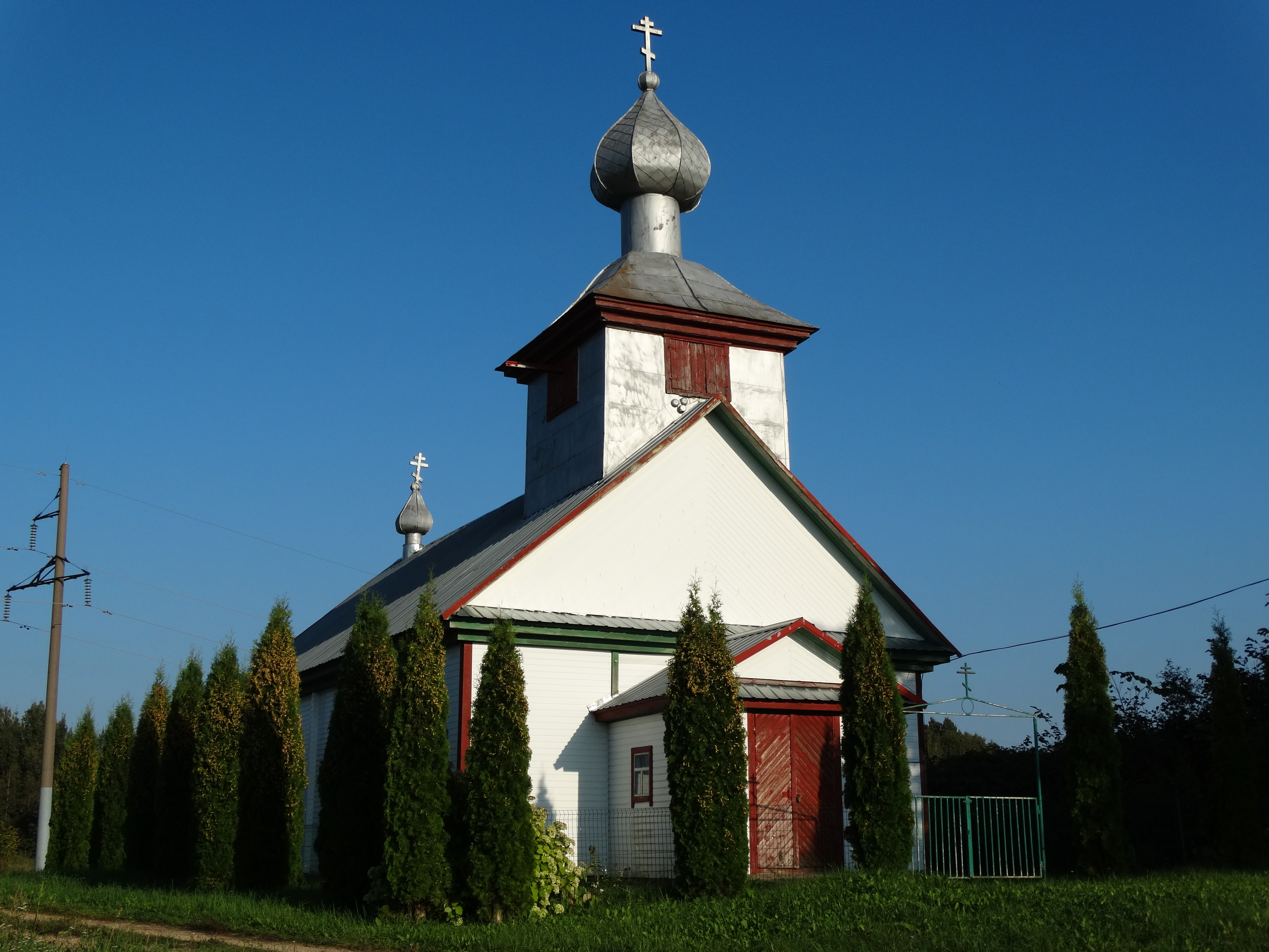 Church of Old Believers in Minauka, Zarasai district, Lithuania